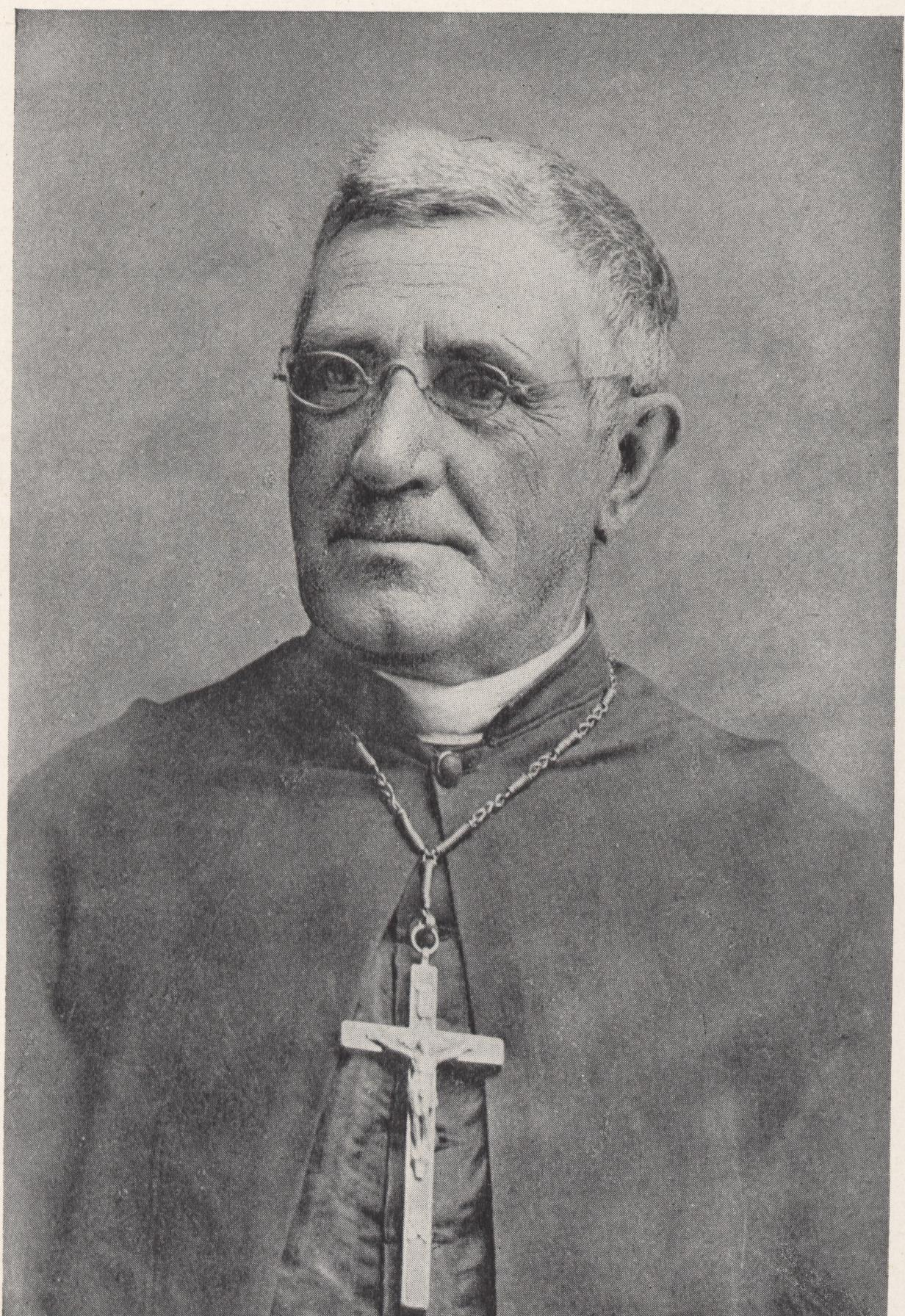 Fr. Joseph Bihn, Tiffin, Ohio, 1890